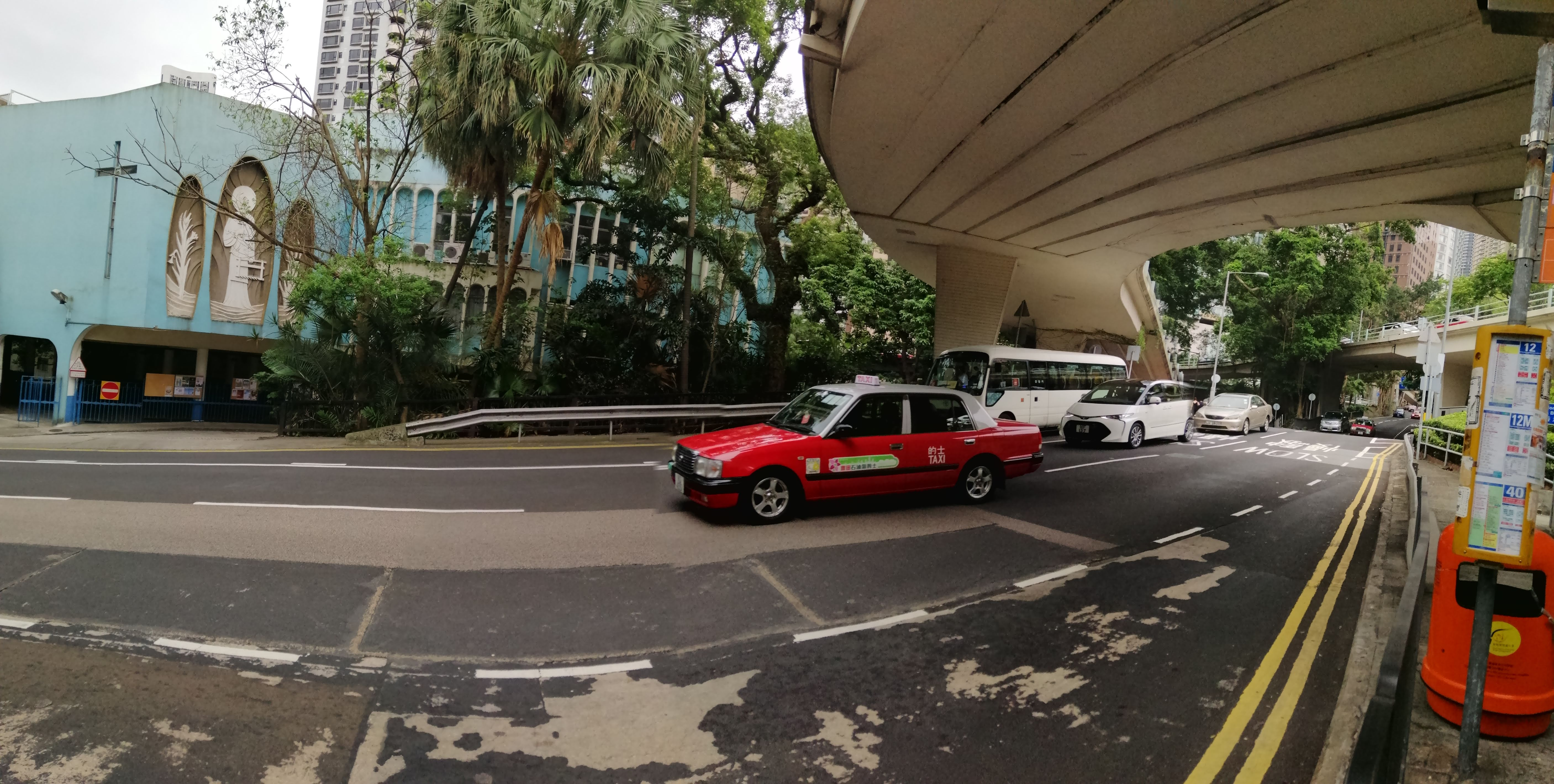 peak tram 3